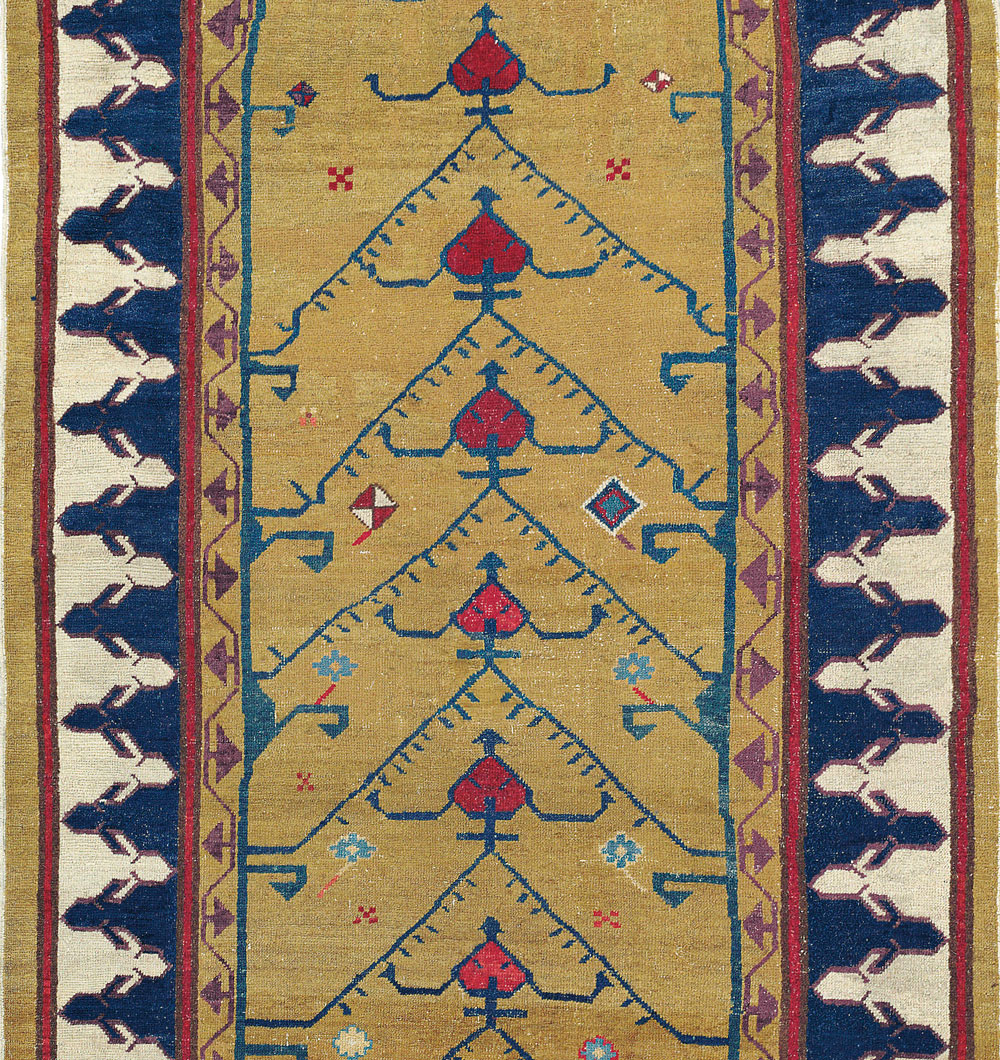 Lot 312 – North West Persian Runner (detail), late 18th century .Even light overall wear, scattered repiling and restoration, reduced in length. 13ft.4in. x 3ft.5in. (407cm. x 105cm.) £15,000-20,000